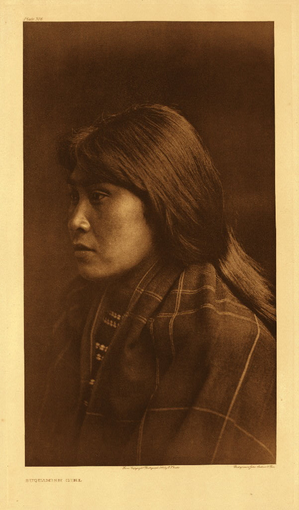 Suquamish girl